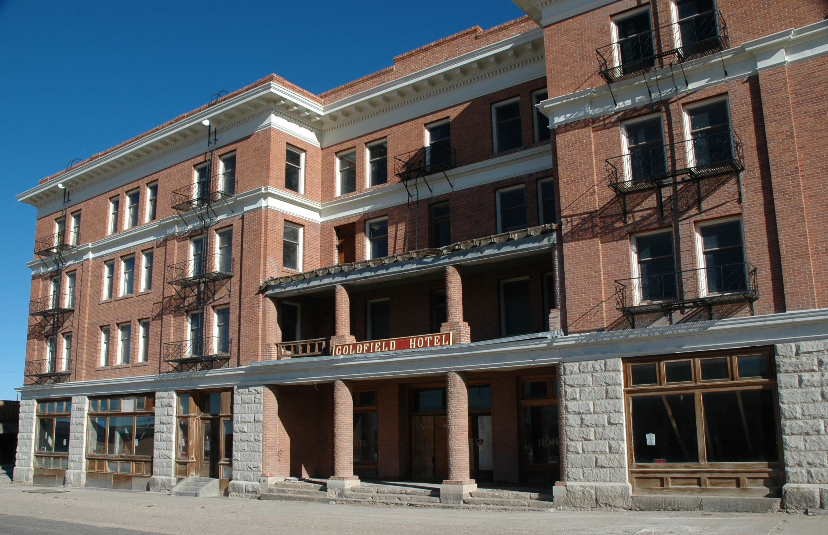 Goldfield Hotel-1906-Goldfield, Nevada